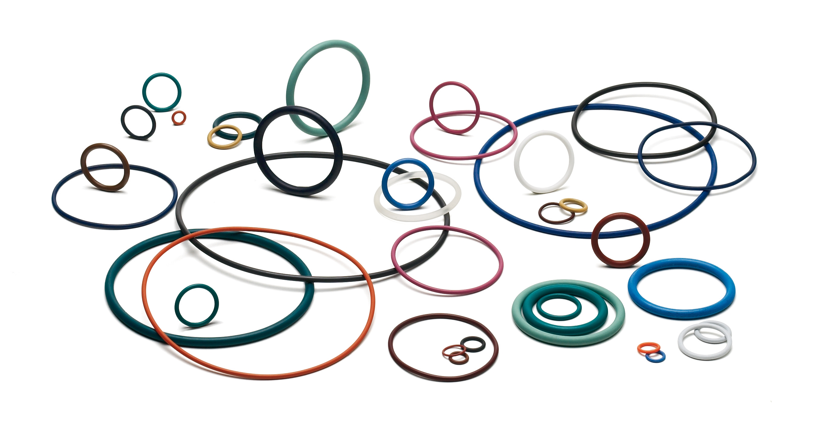 O-rings.